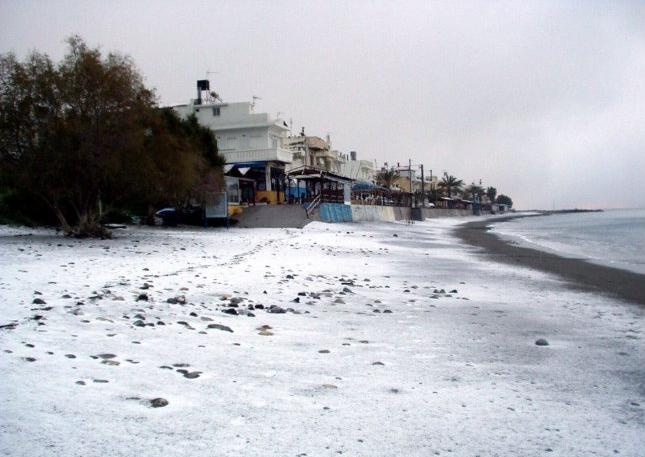 Mirtos in South Crete, covered in snow on february 18th 2008.